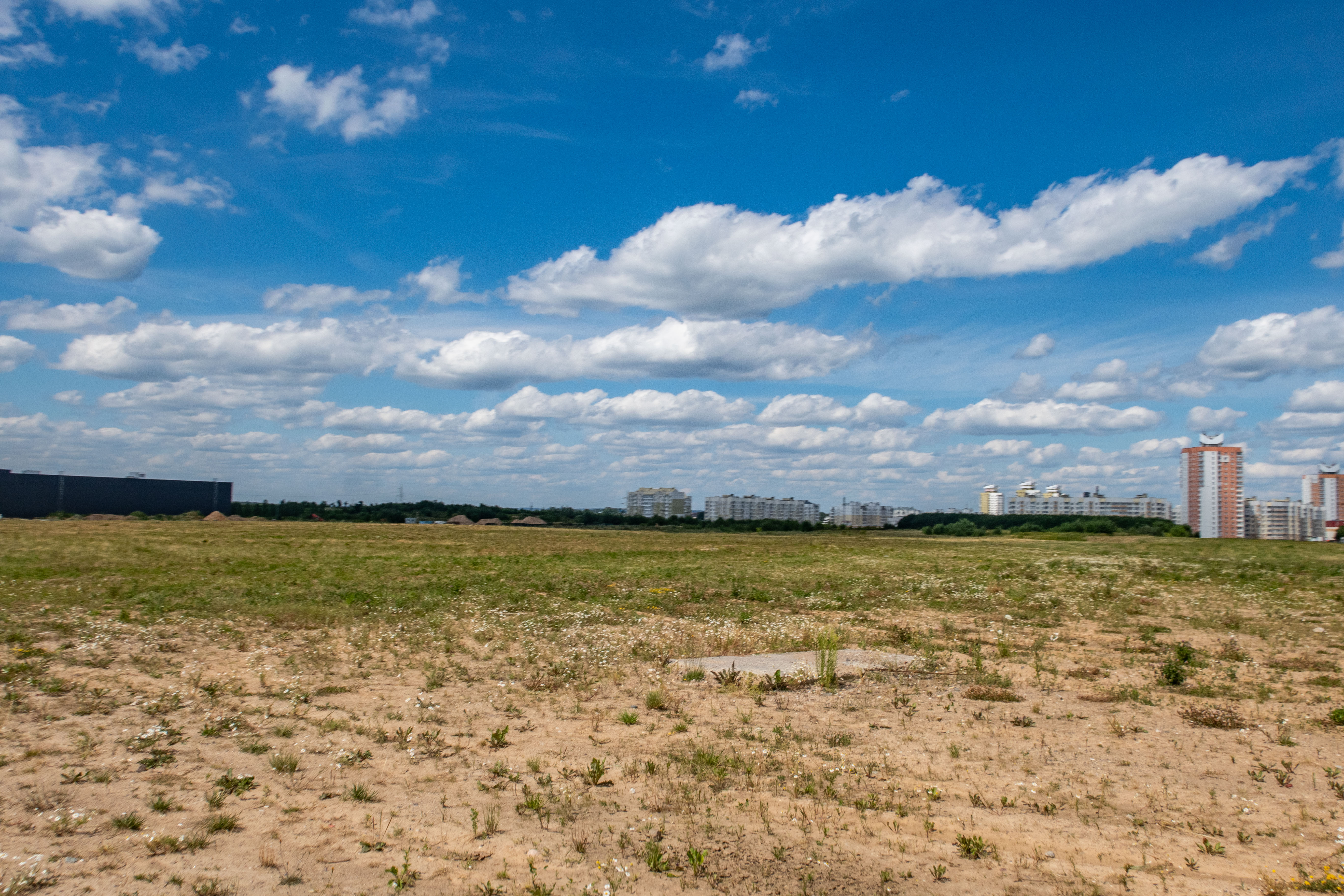 Hugo Chavez Park. Minsk, Belarus